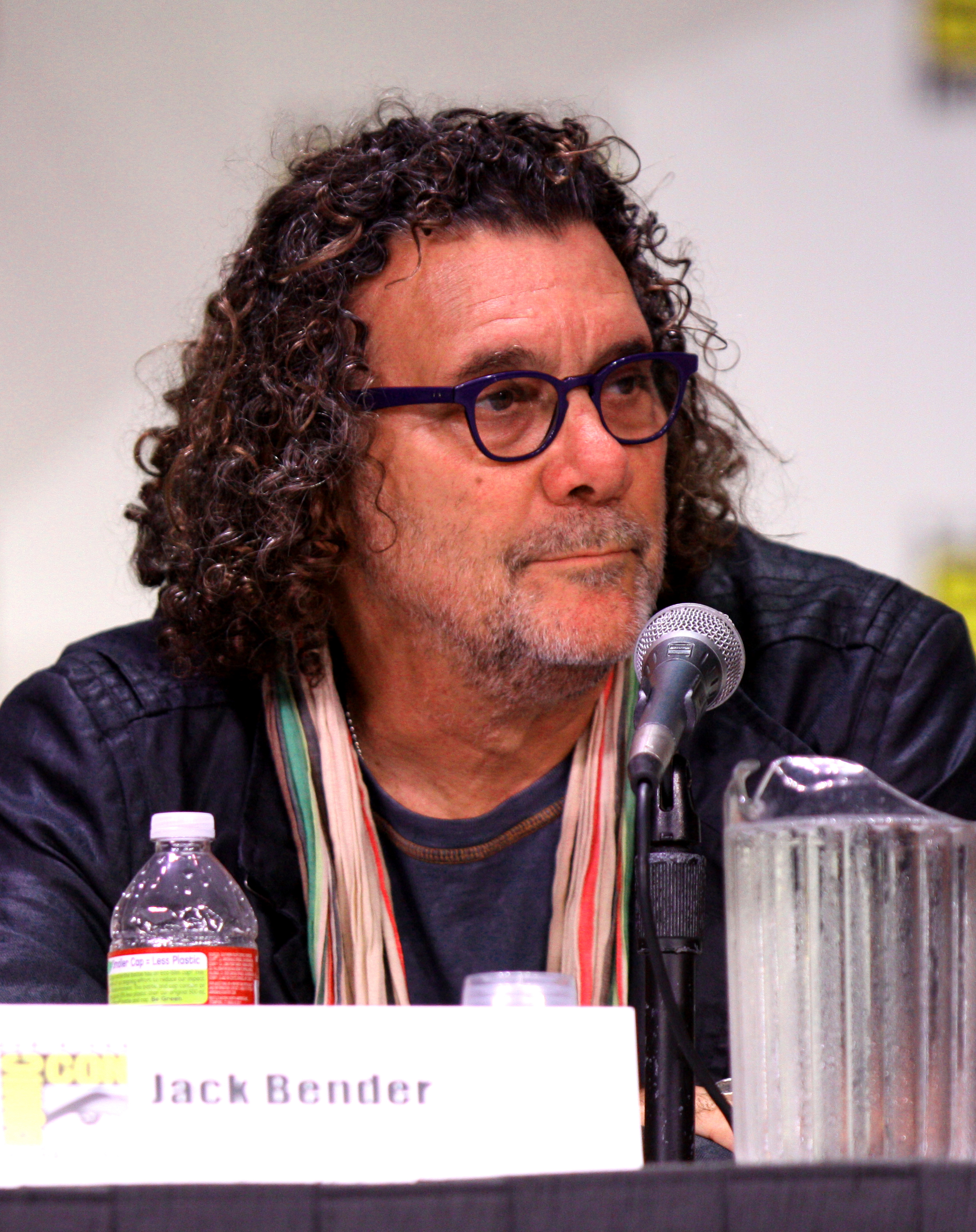 Jack Bender at the 2011 Comic Con in San Diego